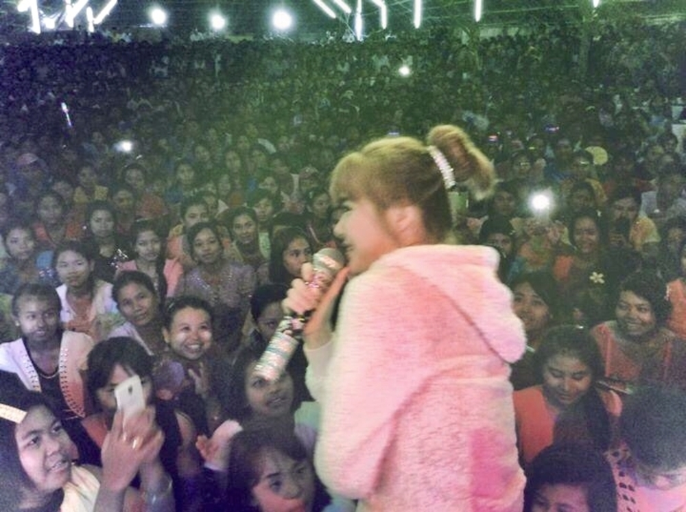 Singer and actress May Thet Khine